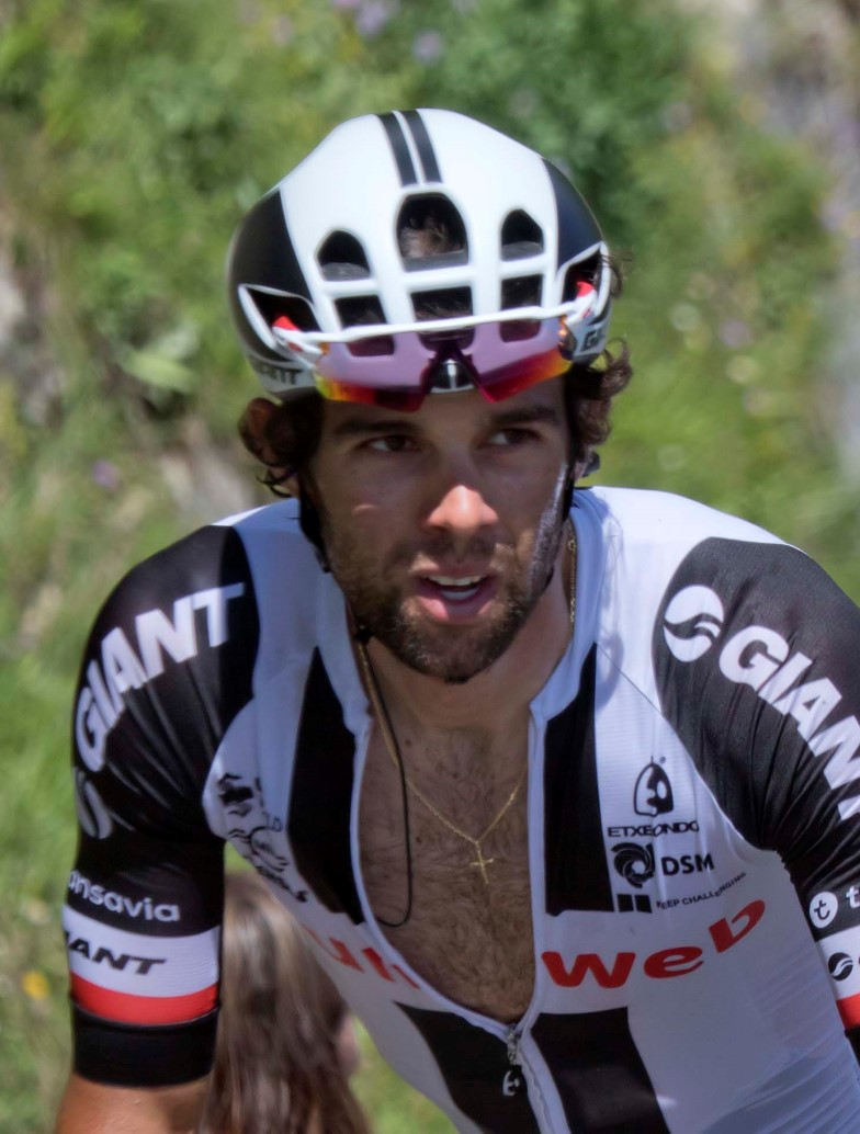 14-7_15 matthews